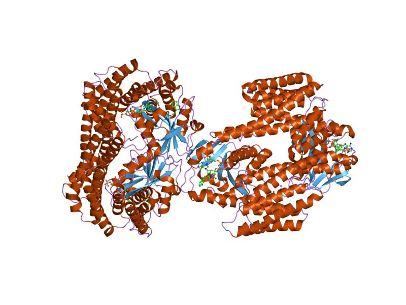 Cartoon representation of the molecular structure of protein registered with 1ib1 code.